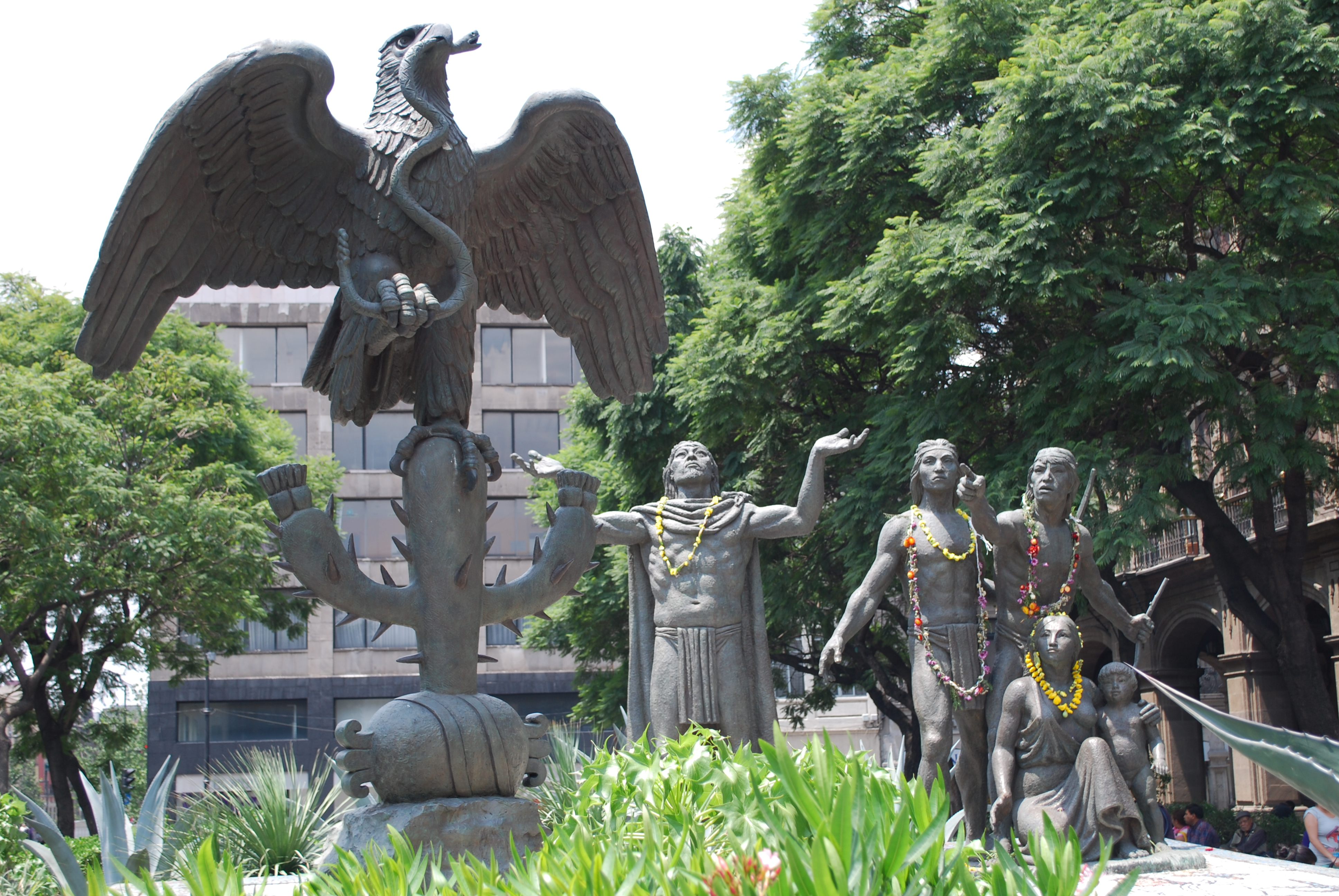 Sculpture depicting the sign to the Aztecs to settle on a small lake island and build the city of Tenochtitlan. Located just off the Zocalo (main square) in Mexico City